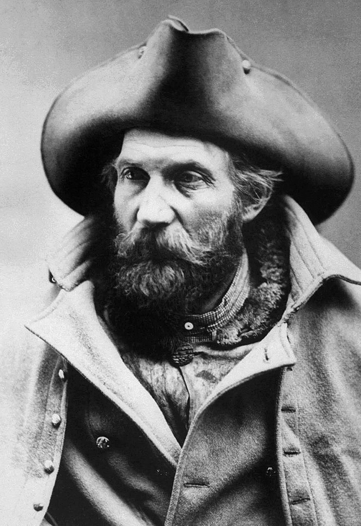 Harry Yount (1839–1924), the first park ranger of Yellowstone National Park.[1]